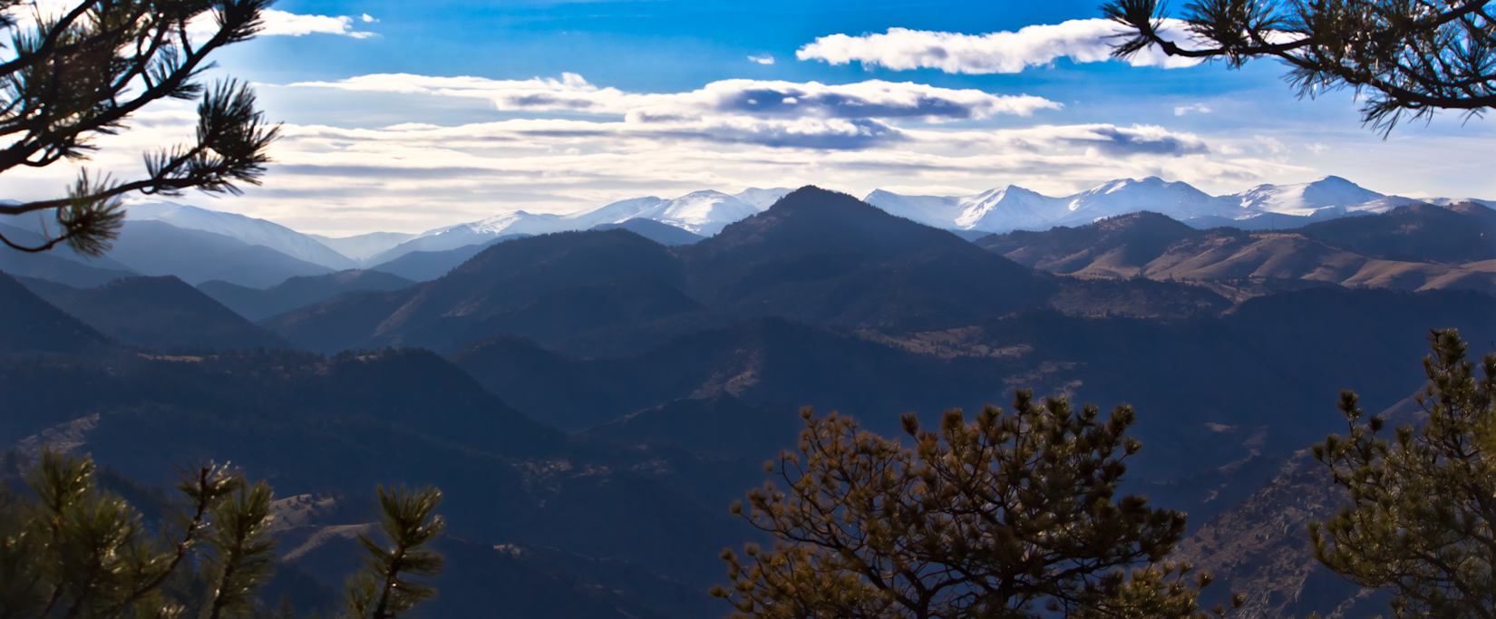 Westward view of the Rocky Mountains from Lookout Mountain. Golden, Colorado